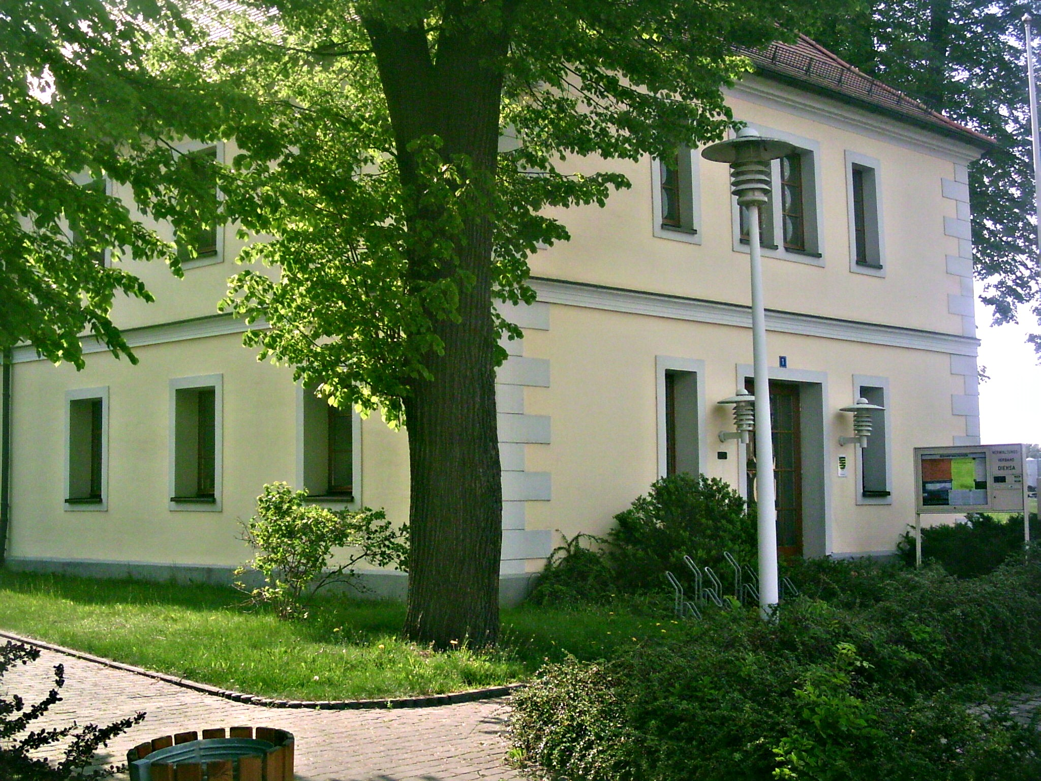 The Gewandhaus of Diehsa